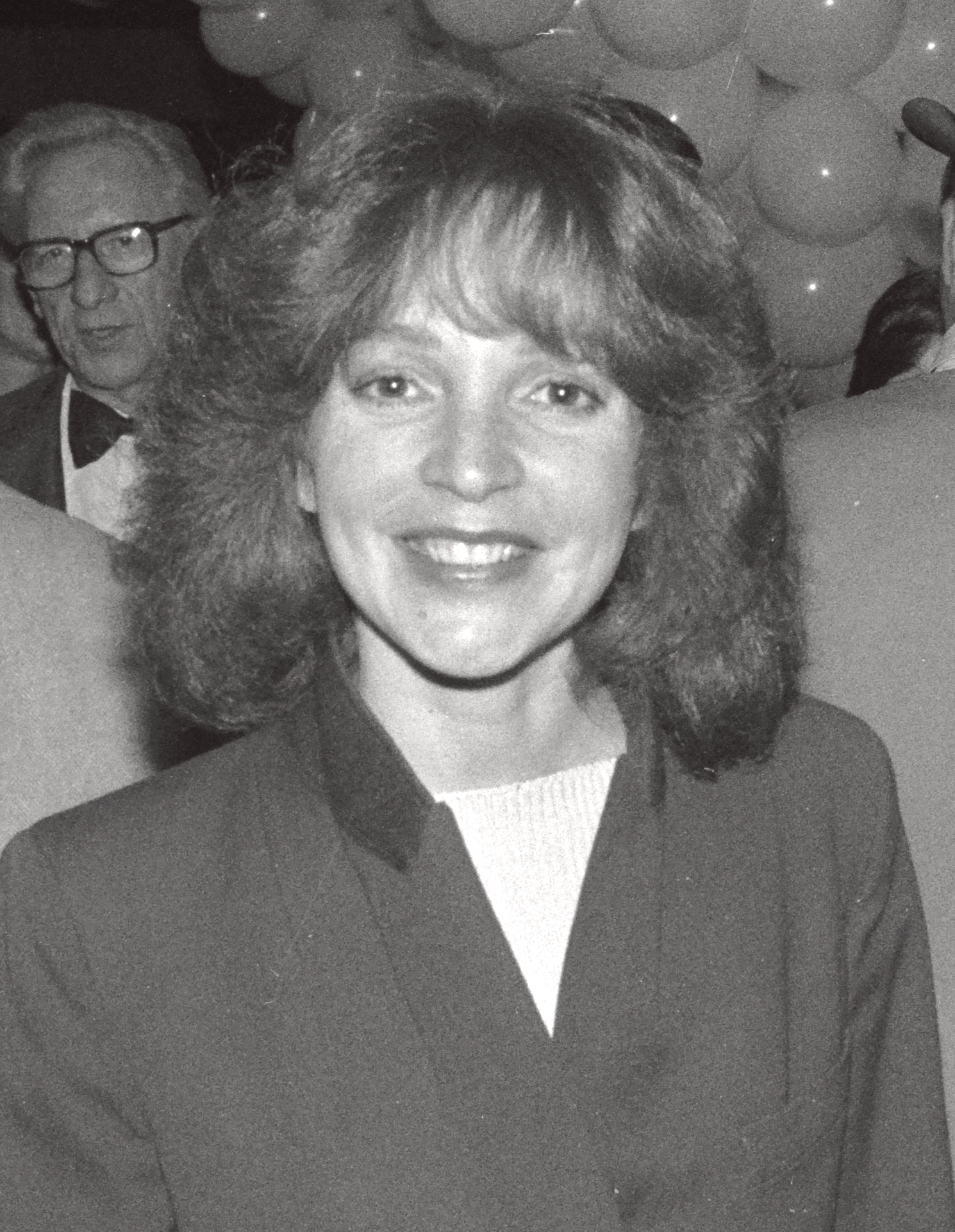 Melanie Chartoff at the party held at the Hollywood Palladium after the premiere of the Chevy Chase/Goldie Hawn movie Seems Like Old Times.